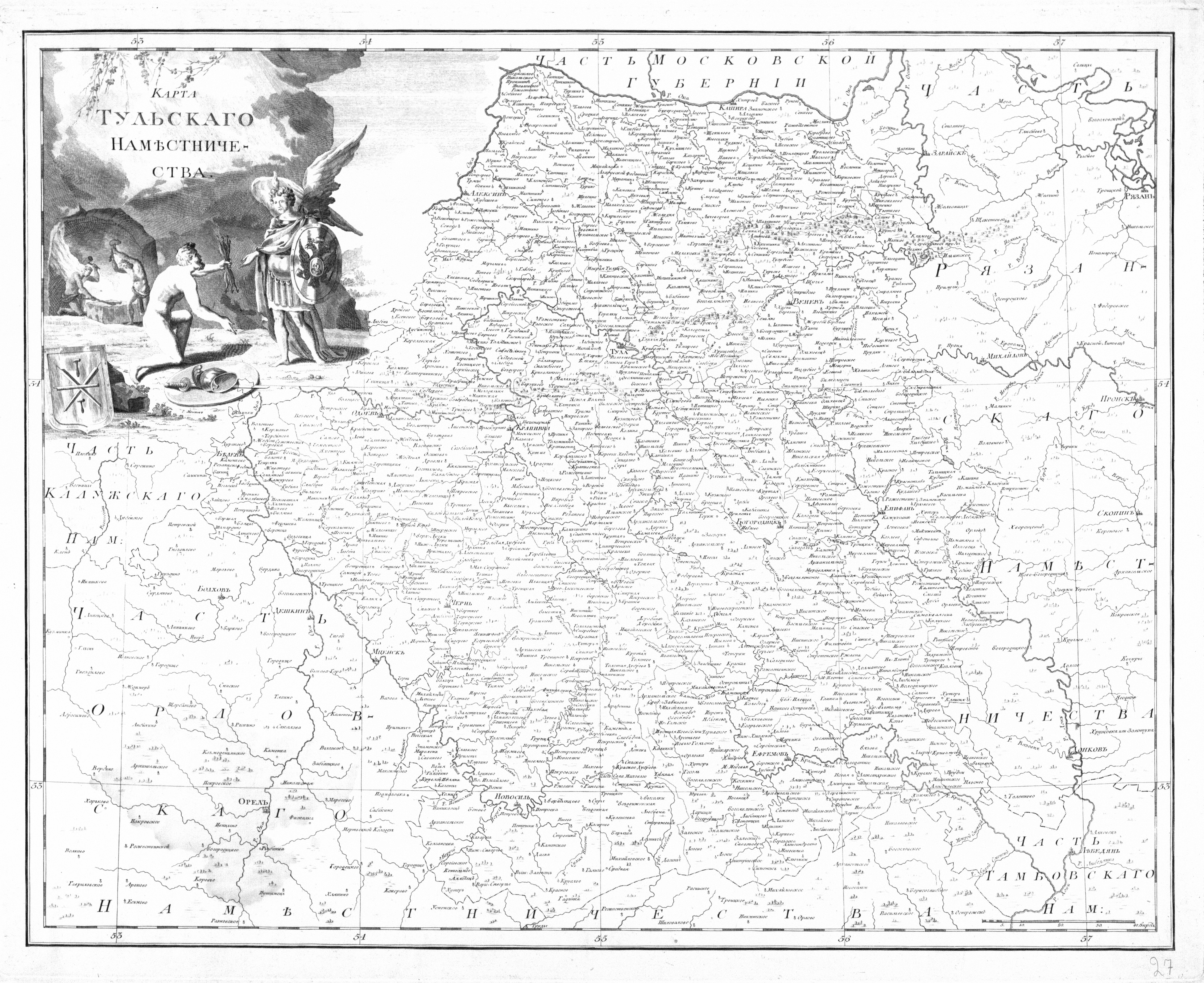 Map of Tula Namestnichestvo (sheet 27) from official Atlas of the Russian Empire (1792).